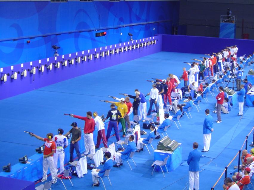 The shooting competition of the men's Modern pentathlon at the 2008 Summer Olympics in the Olympic Green Convention Center. From the left: Ilia Frolov, Jean Berrou, Andrejus Zadneprovskis, Andrey Moiseyev, Viktor Horváth, David Svoboda, Edvinas Krungolcas, Steffen Gebhardt, Eric Walther, Yahor Lapo, and all other competitors.